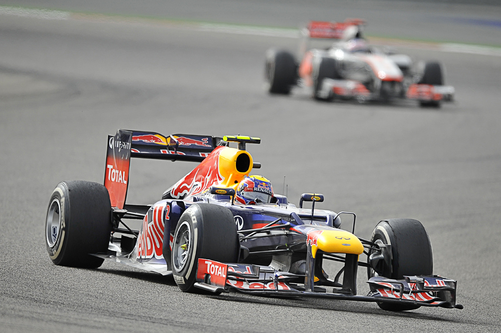 Mark Webber at the 2012 Bahrain Grand Prix.